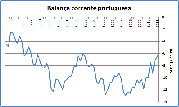 Portuguese current account, from 1995 to 2011, as a share of GDP.